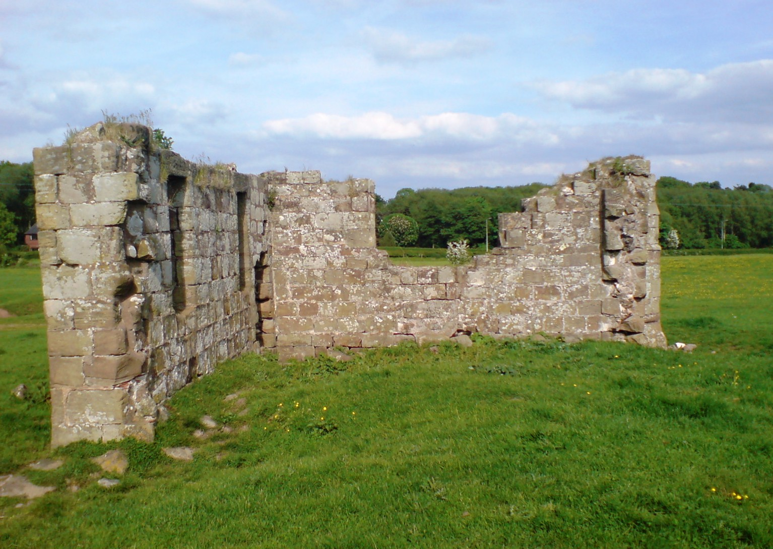 Ruin of the chancel of Creswell parish church, Staffordshire, England, seen from the west